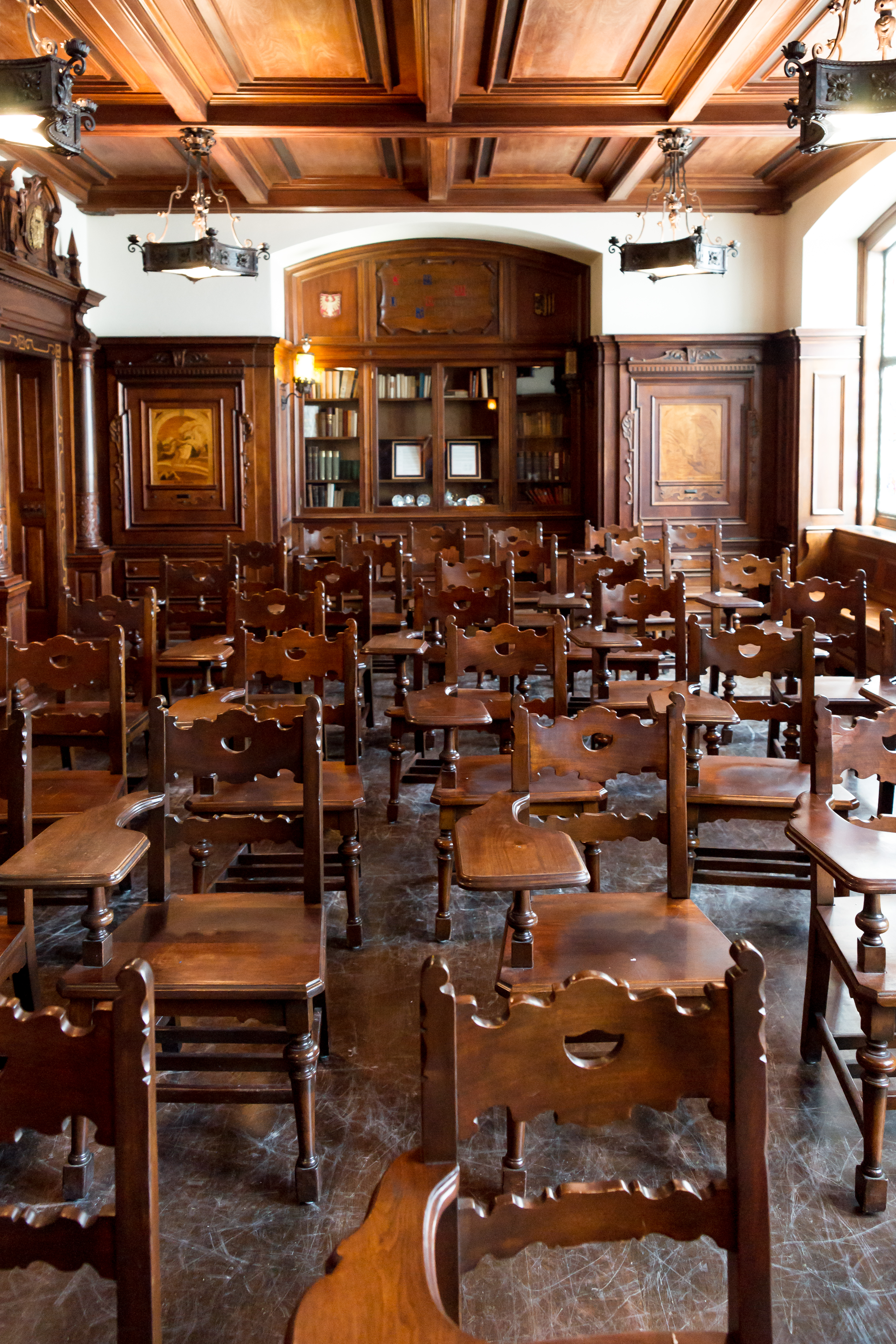 German Nationality Room in the Cathedral of Learning at the University of Pittsburgh